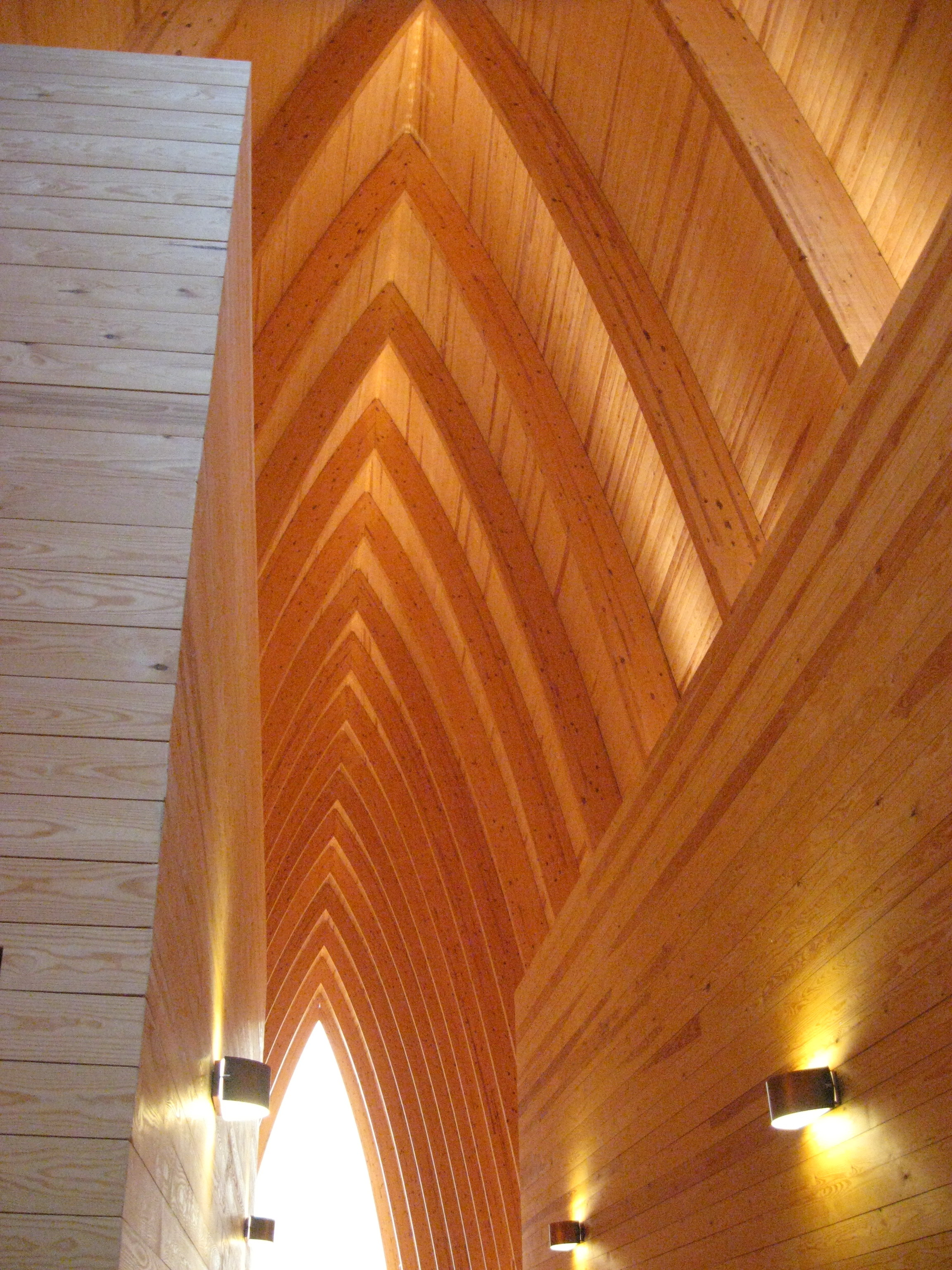 The Ecumenical Art Chapel of St. Henry, Hirvensalo, Turku, Finland. Interior view.